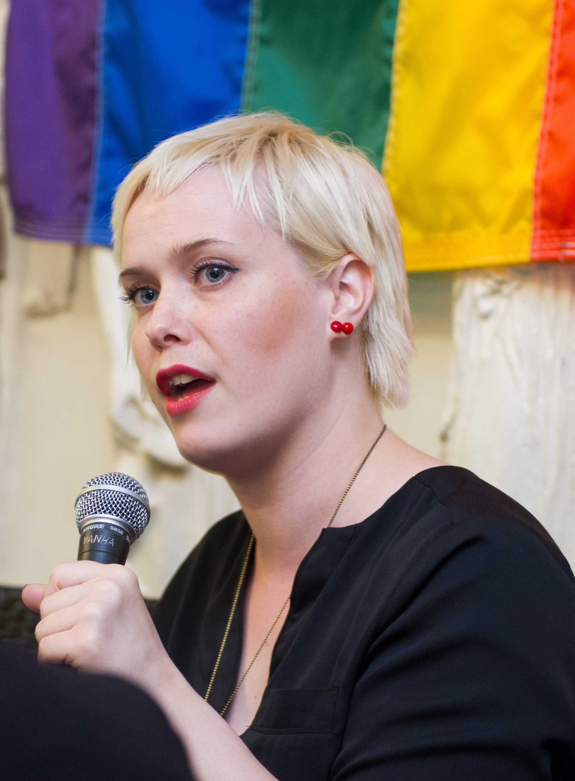 Young European Socialists chair Kaisa Penny